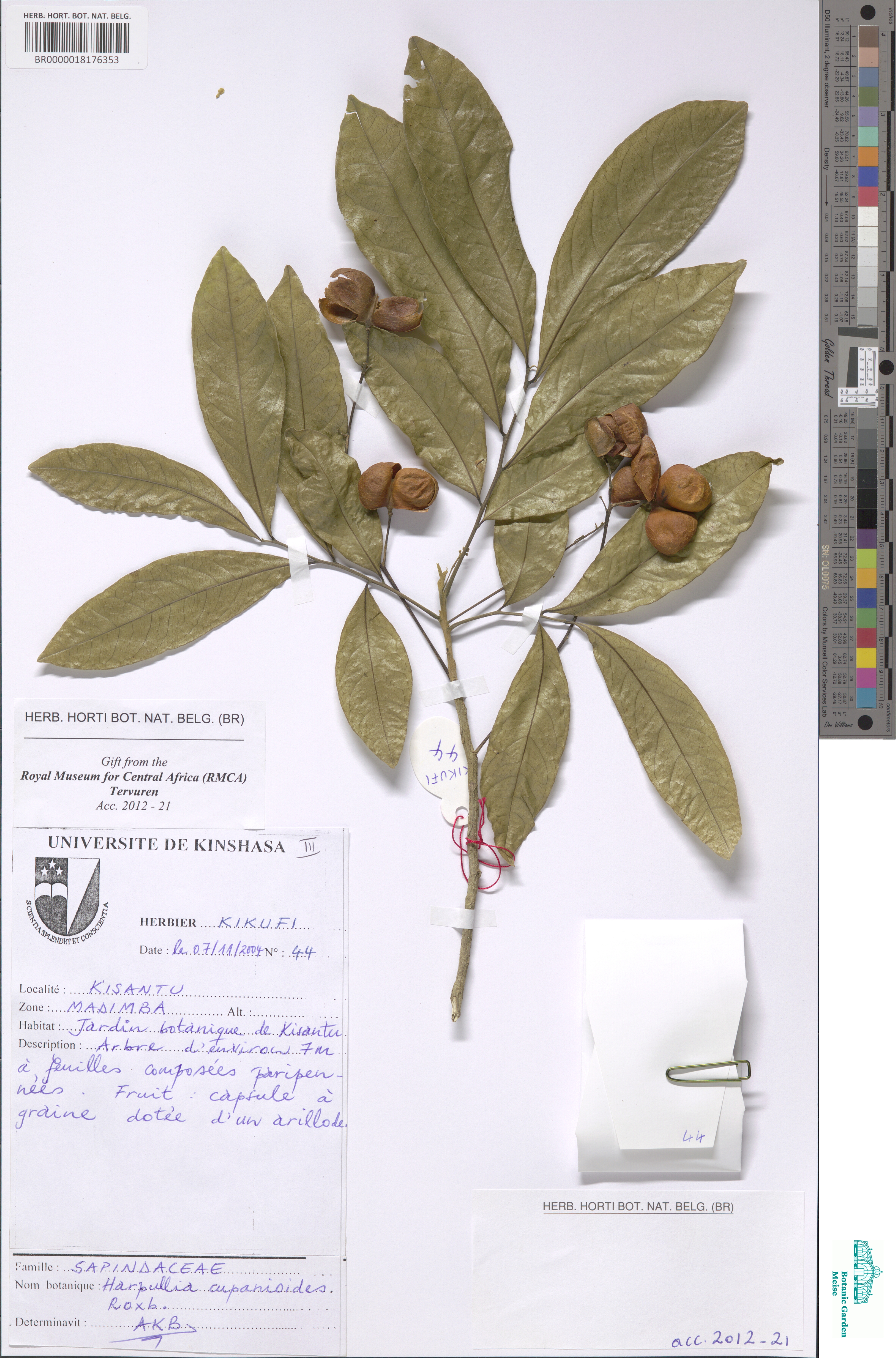 Specimen BR0000018176353 Harpullia cupanioides from the Botanic Garden of Kisantu (from the herbarium collection of KIKUFI No. 44)